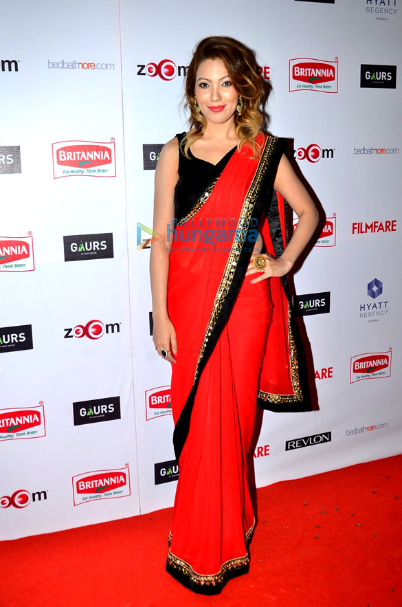 Munmun Dutta at the red carpet of 60th Filmfare pre-awards party.